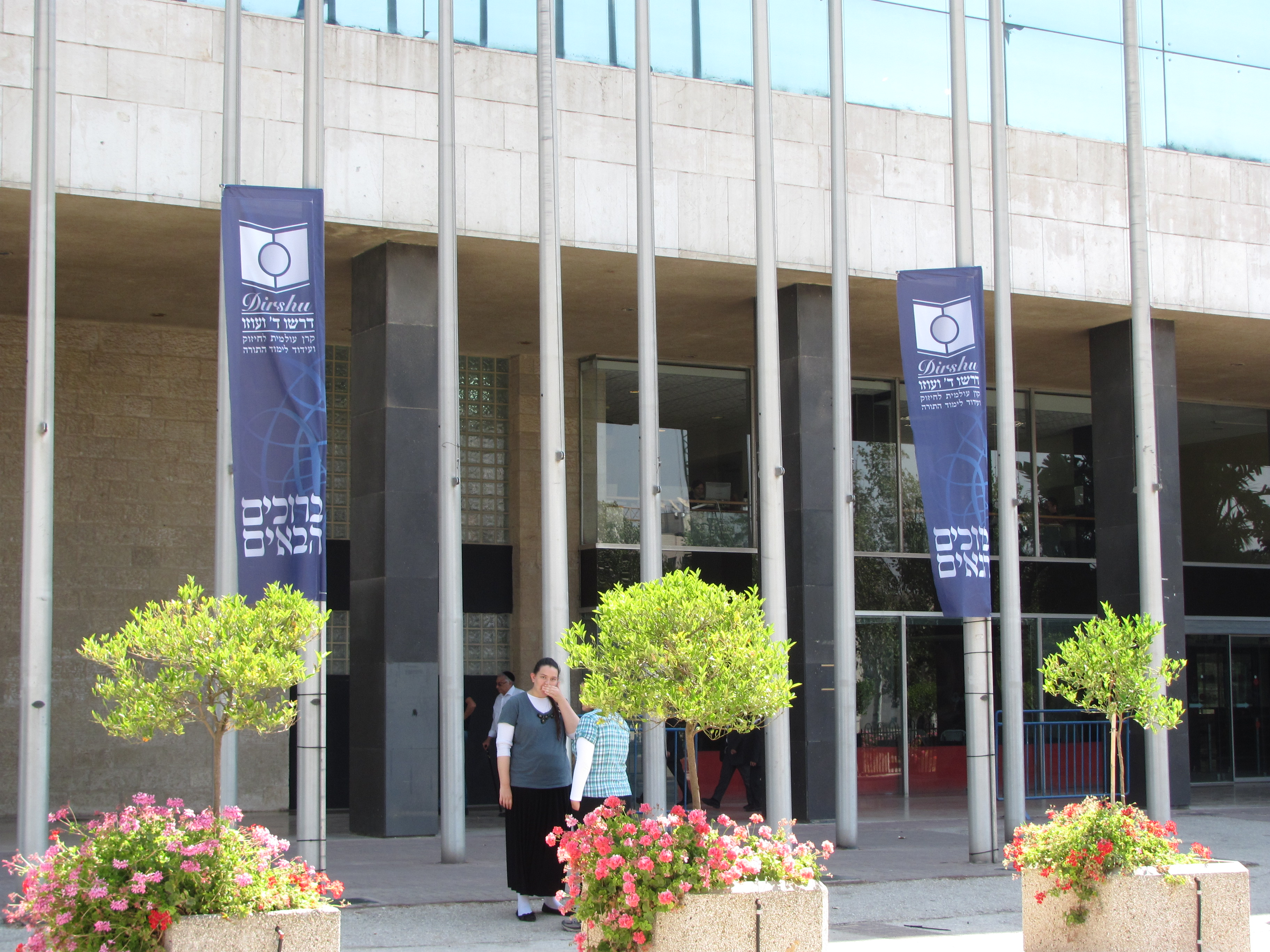 Dirshu banners hanging outside the Jerusalem International Convention Center (Binyanei HaUma) for the English-language Siyum HaShas event.